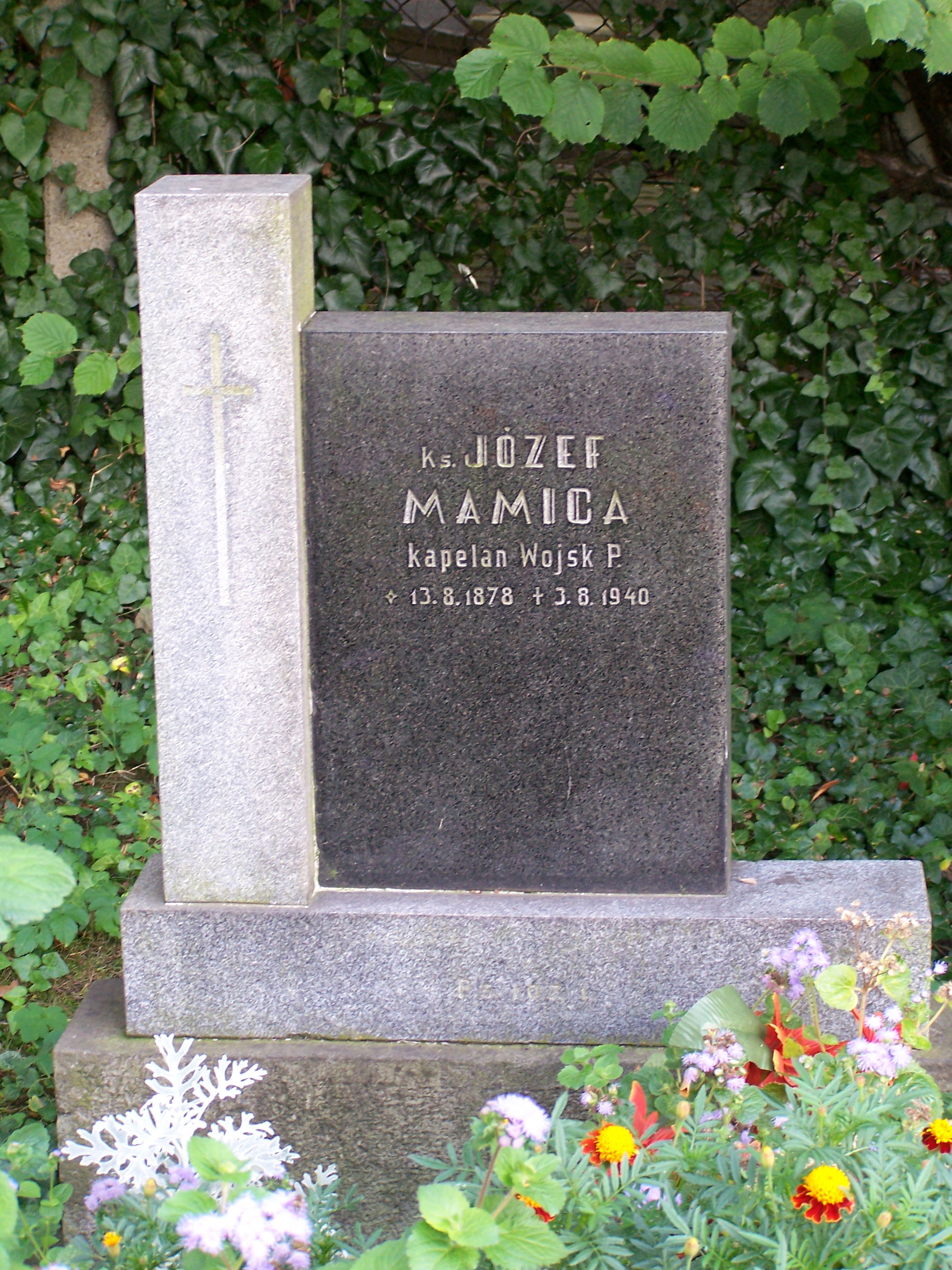 Grave of Józef Mamica, chaplain of the Polish Army at the Protestant cemetery in Cieszyn, Poland